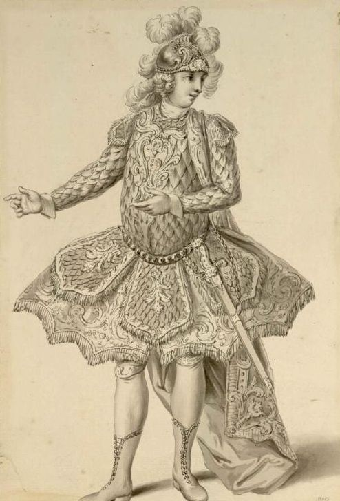 Antigono by Johann Adolph Hasse (staged at Dresden Court Theatre 1744) Costume designs by Francesco Ponte (b. 1725) - Learco (sung by Giovanni Bindi) fig. 5 of 9 (+title page)